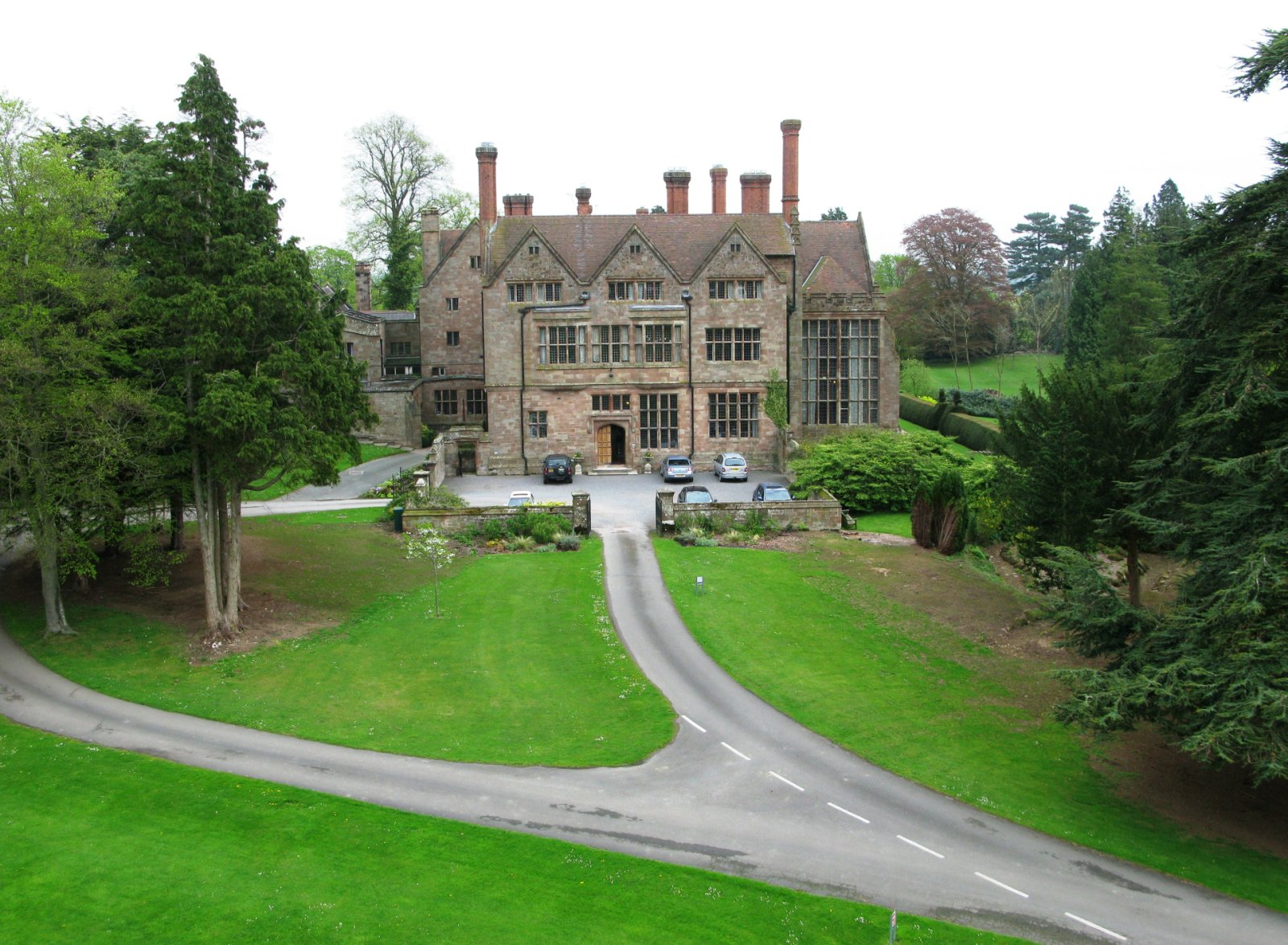 Adcote, Shropshire. Adcote School. The building was constructed in 1879 and is Grade I listed.